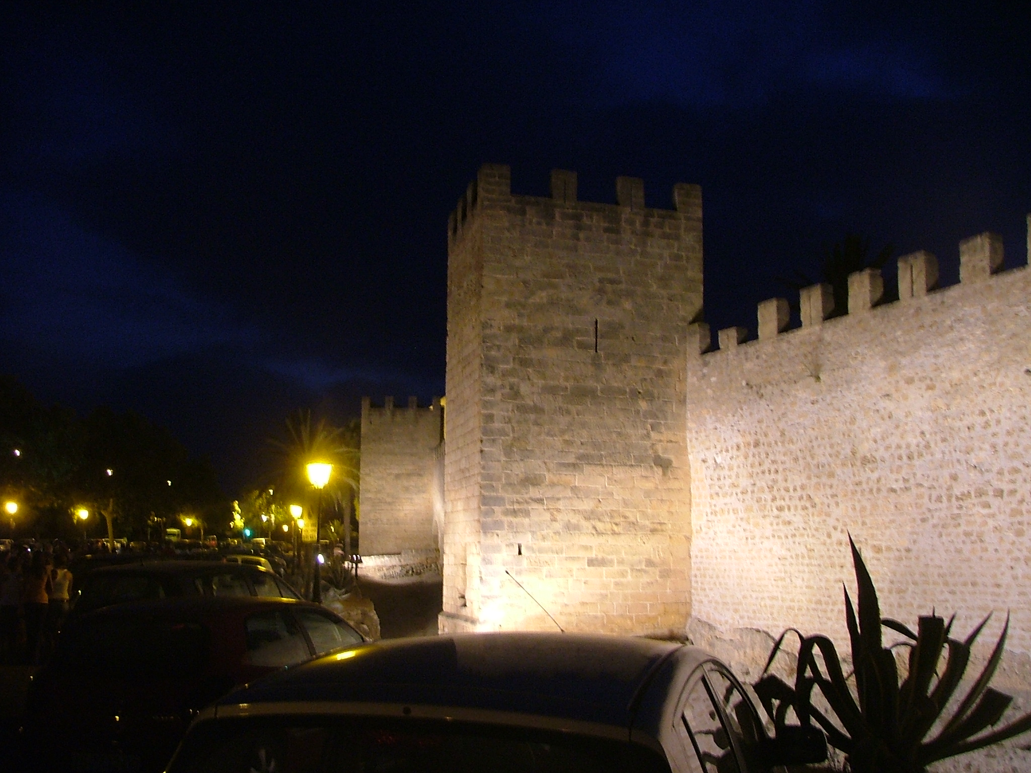 City walls of Alcudia by night, Mallorca, Spain